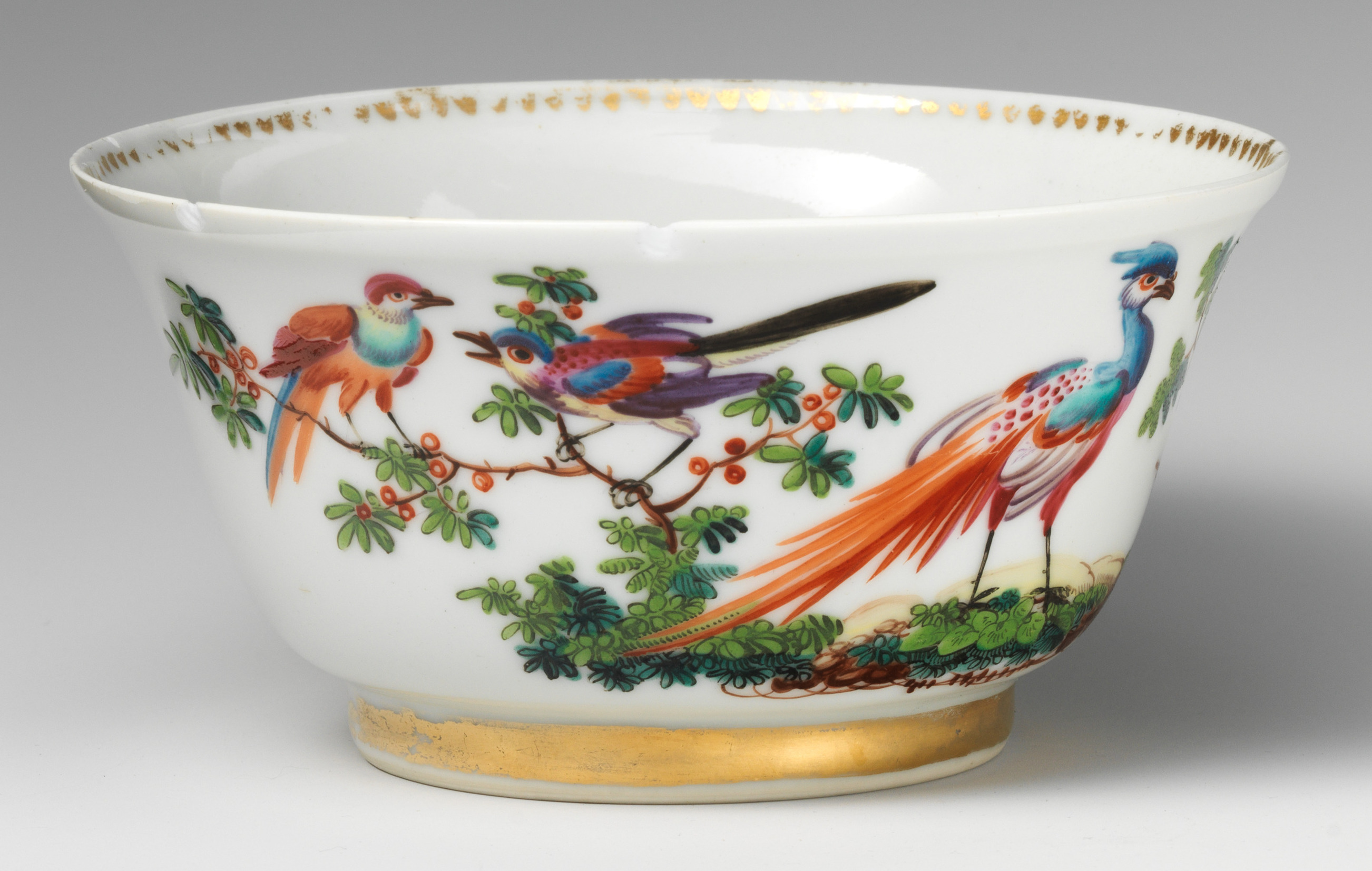 British; Bowl; Ceramics-Porcelain